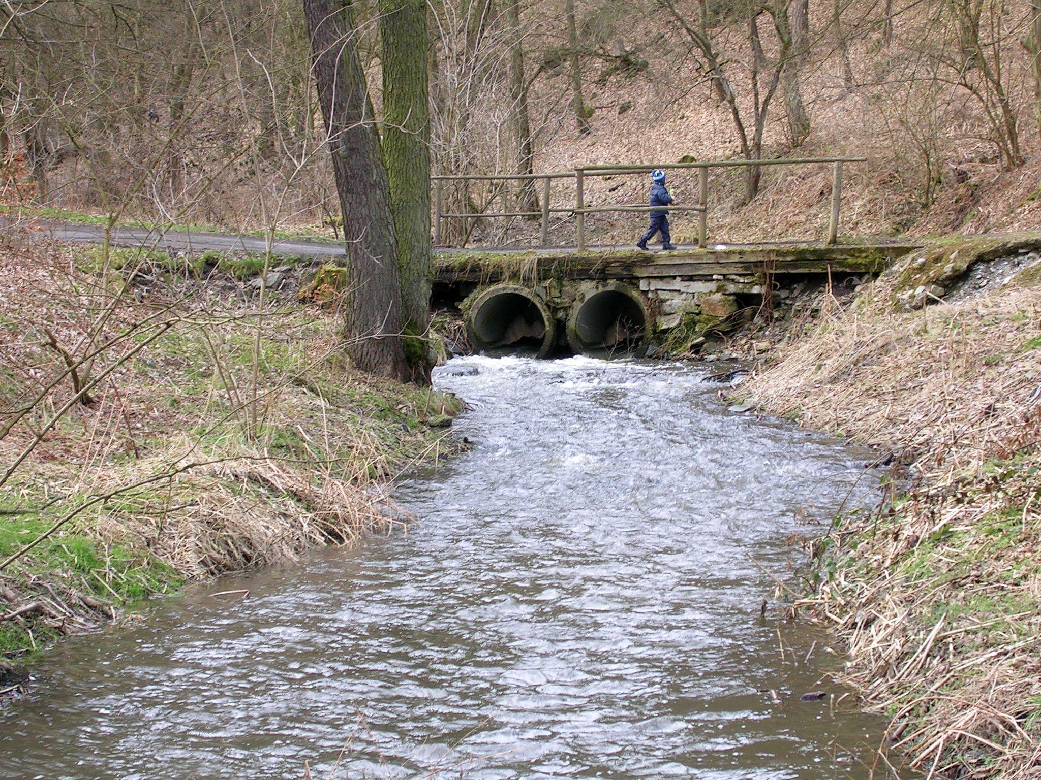 Týnec nad Sázavou-Zbořený Kostelec, the Czech Republic. Bridge over the Kamenice Creek near a castle ruin.